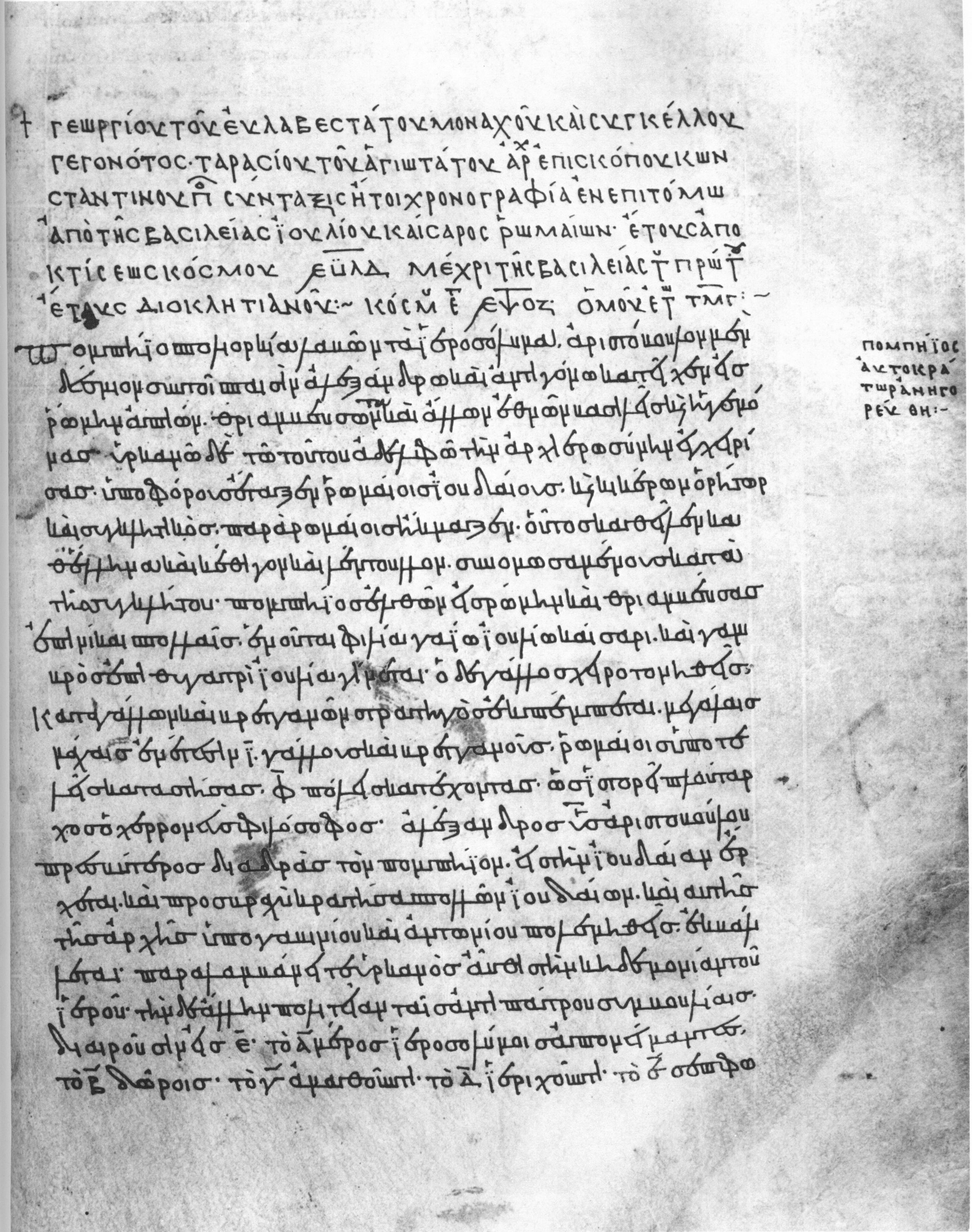 George Syncellus, Chronicle, in Oxford, Christ Church, MS. Wake 5, fol. 12r.